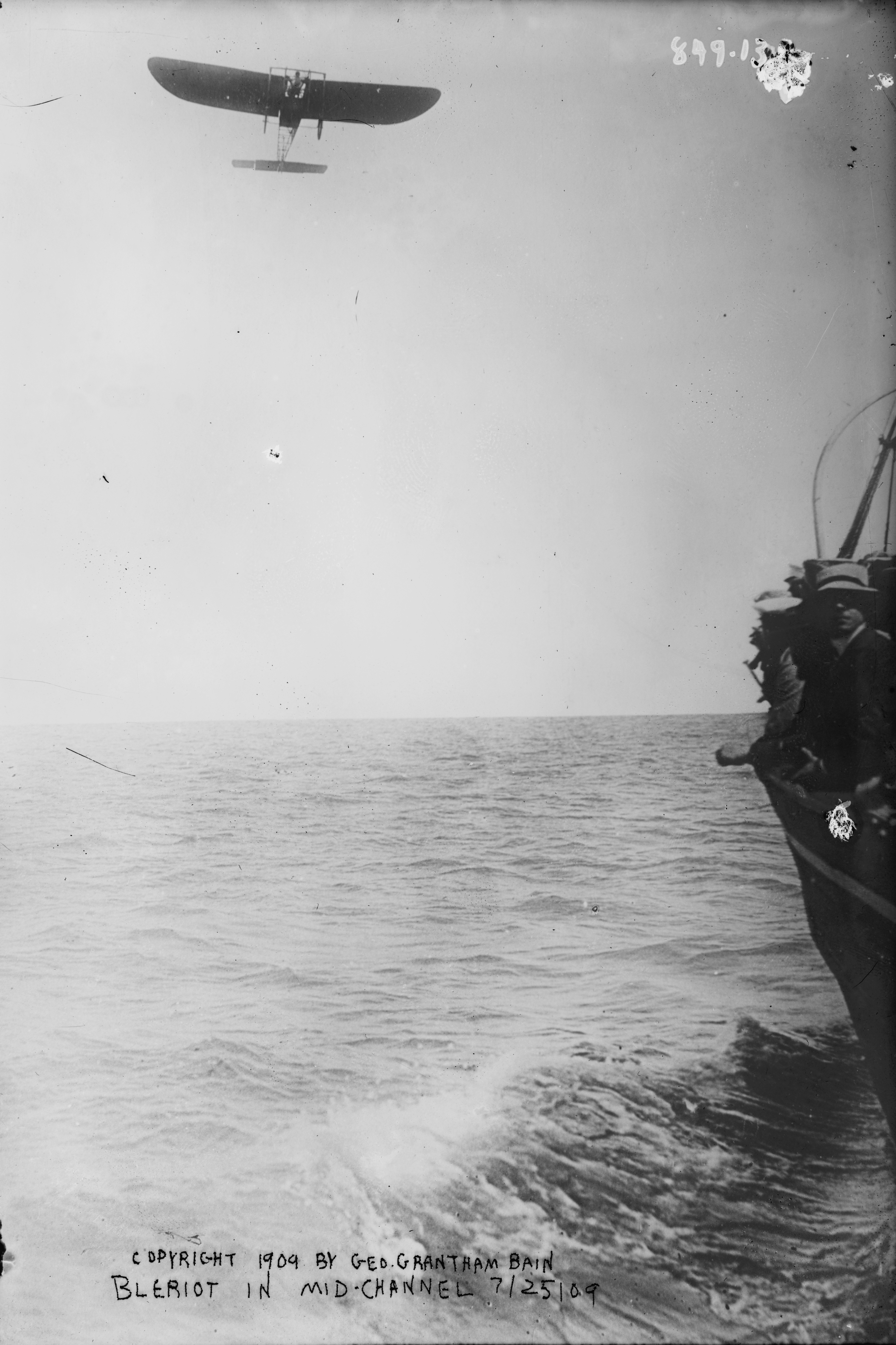 Bleriot in flying machine, in mid-channel, Louis Blériot's channel crossing on july 25, 1909